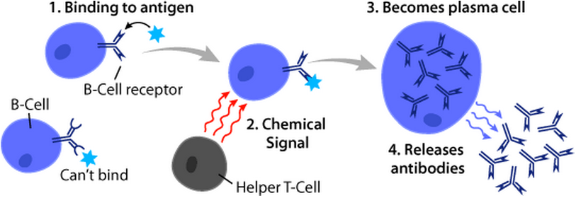 B cell function in general: detect antigen, receive helper signals, differentiate into a plasma cell, secrete antibodies